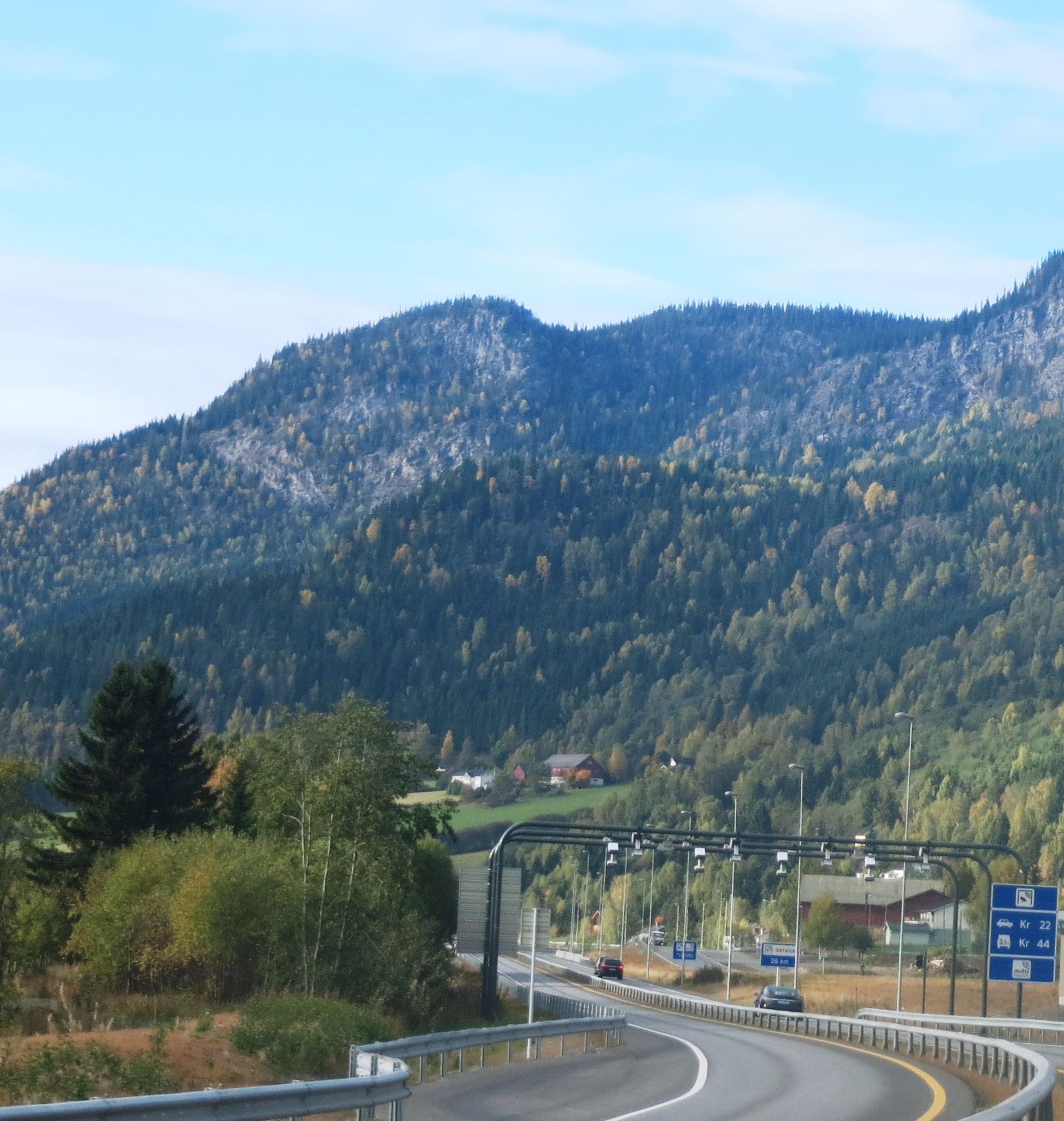 Image from the municipality of Øyer, Oppland county, east Norway.